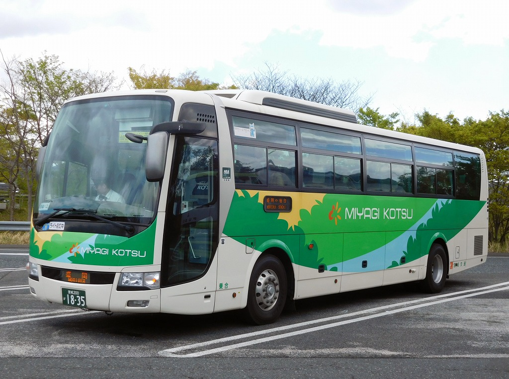 Miyagi Kotsu Mitsubishi Fuso Aero Ace (LKG-MS96VP),Highwaybus"Urban"(Sendai-Morioka)